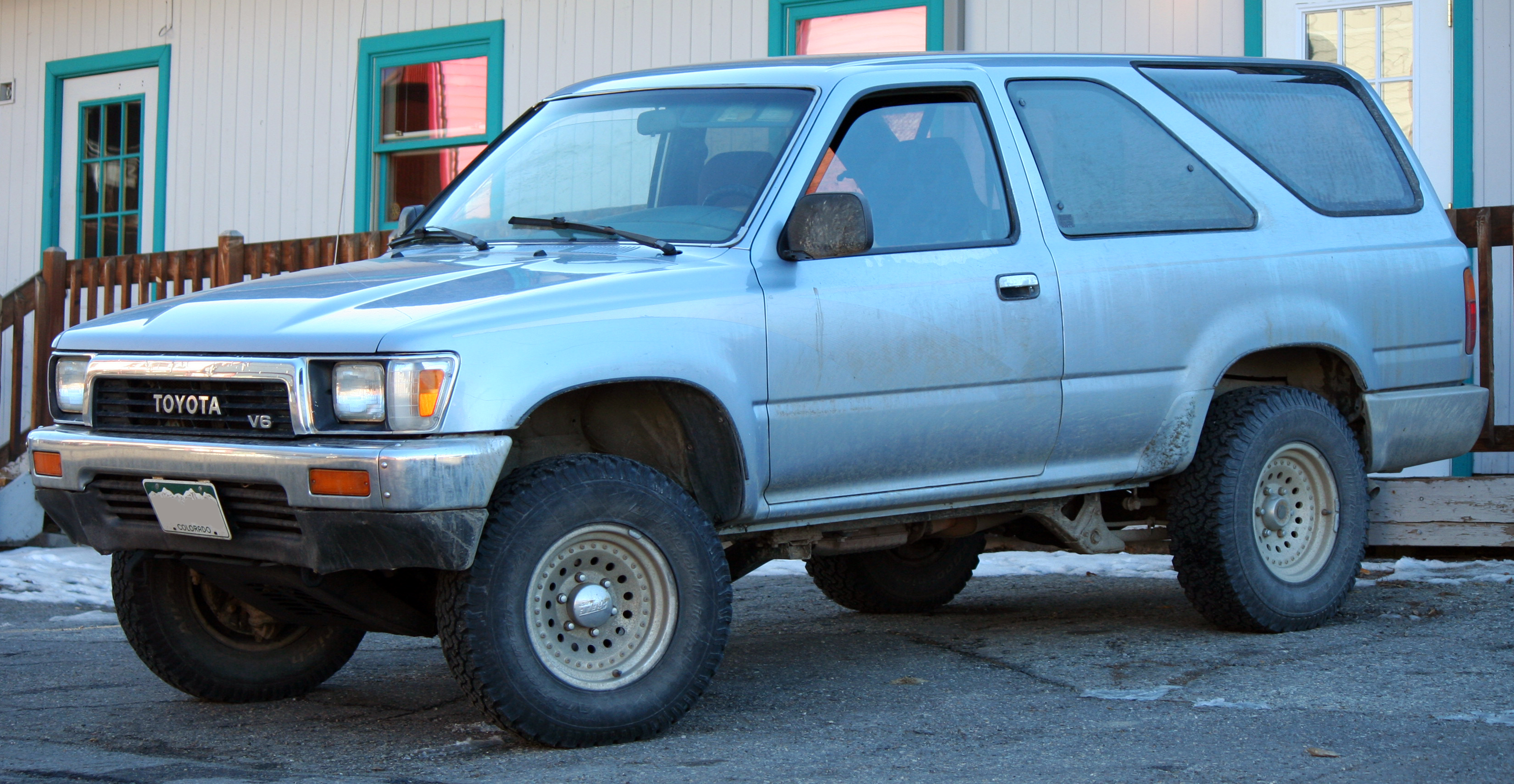 Model year 1990 or 1991 three-door Toyota 4Runner. This rare bodystyle was discontinued part way through the 1992 model year.